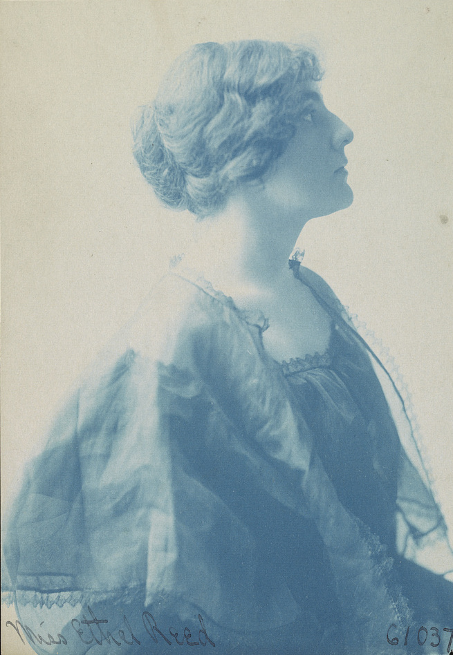 Title Miss Ethel Reed Summary Photograph shows poster artist Ethel Reed, half-length portrait, right profile, wearing dress with light shawl. Contributor Names Johnston, Frances Benjamin, 1864-1952, photographer Frances Benjamin Johnston Collection (Library of Congress) Created / Published [between 1890 and 1910] Subject Headings - Reed, Ethel,--1874 Format Headings Cyanotypes--1890-1910. Portrait photographs--1890-1910. Notes - Title from item. - No. 61037. - Forms part of: Frances Benjamin Johnston Collection (Library of Congress). - Box 17 Medium 1 photograph : cyanotype ; sheet 16.3 x 11.4 cm. Call Number/Physical Location LOT 11735 [item] [P&P]